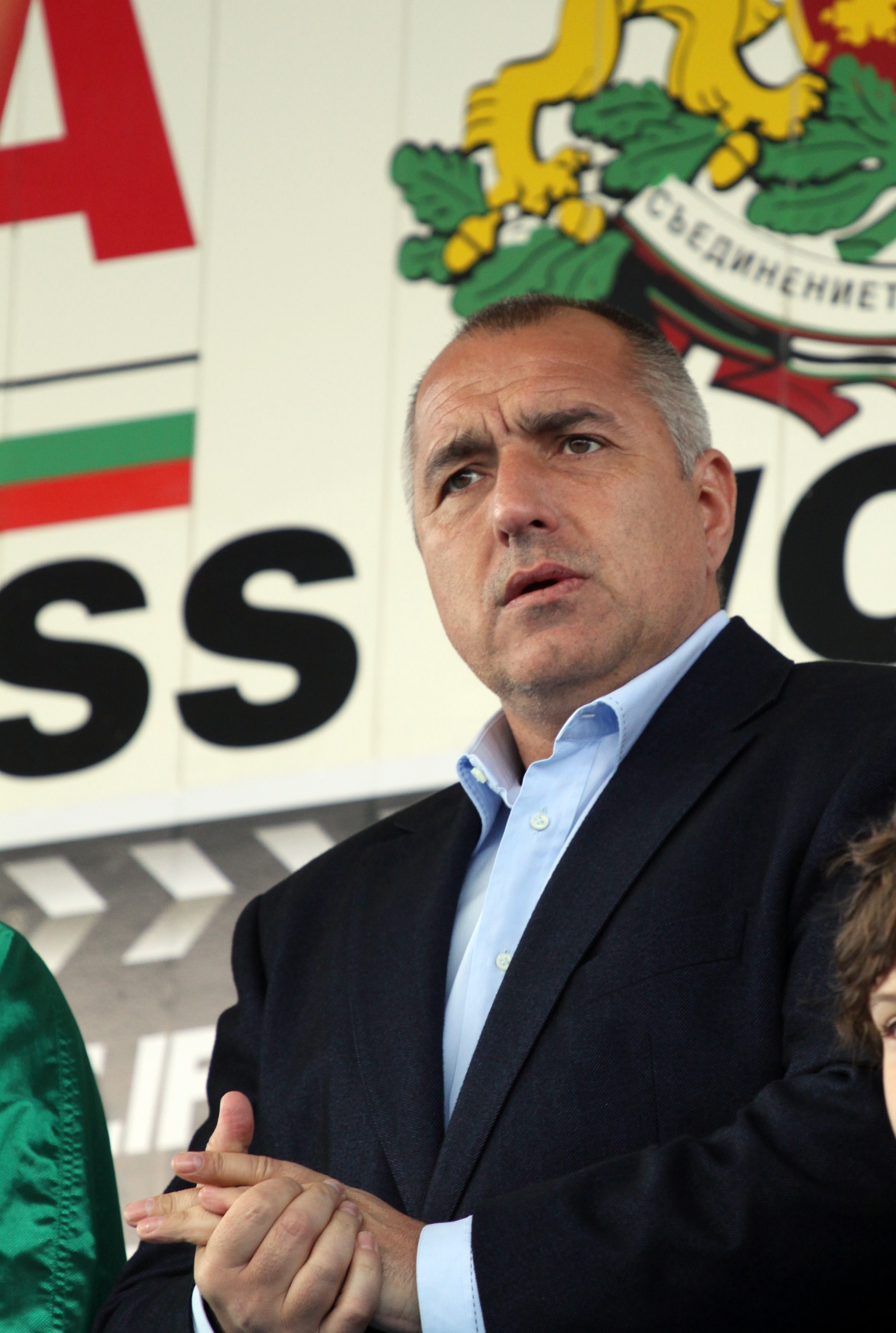 Boyko Metodiev Borisov (Bulgarian: Бойко Методиев Борисов, IPA: [ˈbɔjko mɛˈtɔdiɛf boˈrisof]; born 13 June 1959) is a Bulgarian politician who has been Prime Minister of Bulgaria since July 2009. Previously he was Mayor of Sofia from 8 November 2005 until his election as Prime Minister.